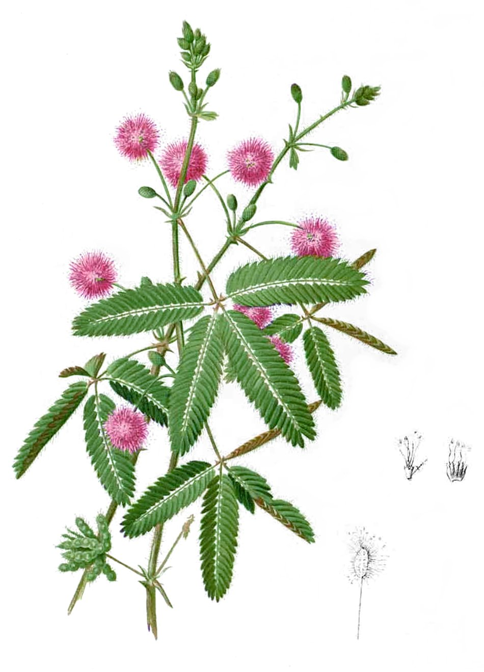 Plate from book